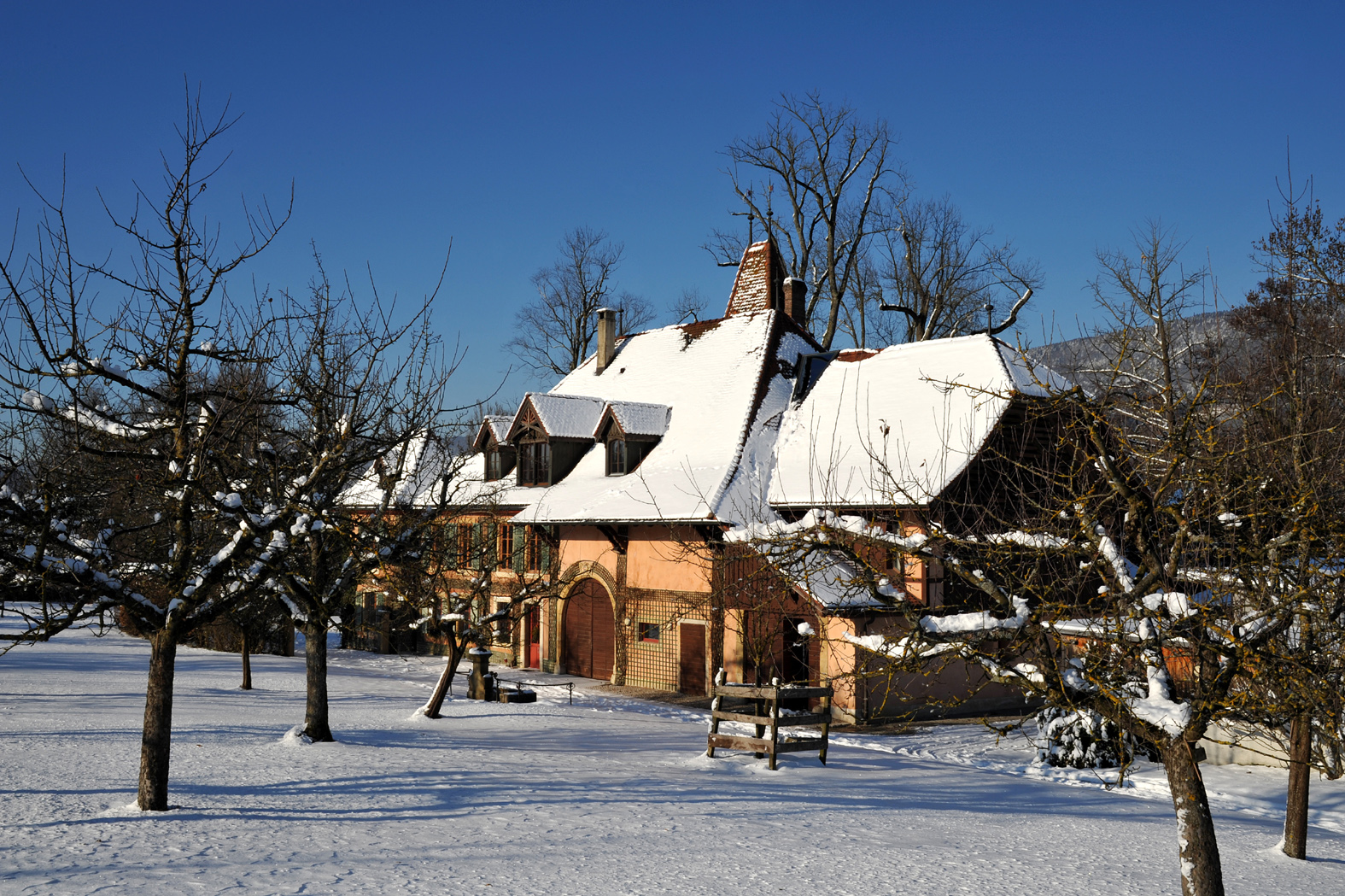 Von Rütte estate near Lake Biel in Sutz-Lattrigen; Berne, Switzerland.